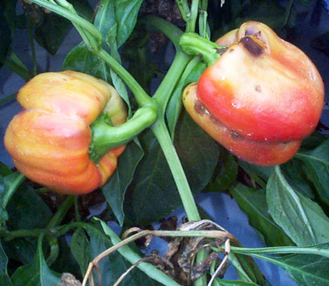 The human gut appears to harbor infectious strains of the pepper mild mottle virus (seen infecting peppers, above), suggesting that humans may serve as vector for certain plant viruses.